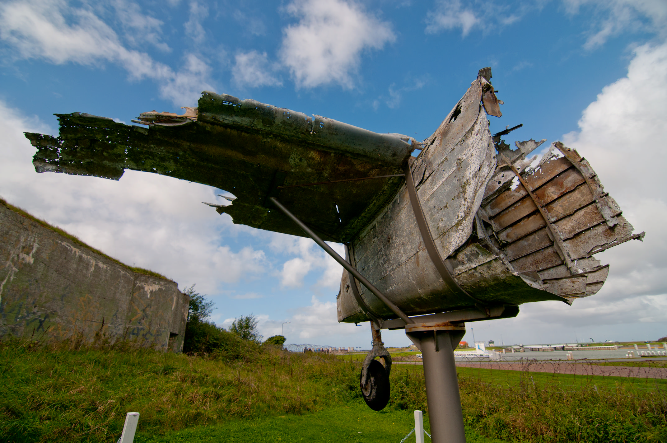 This was one of the few places that held out against the German invaders in may 1940. Its occupants only surrendered after the Germans bombed Rotterdam on the 14th of may and The Netherlands capitulated on the 15th of may 1940. Nikon D300 with Tokina 11-16 mm 2.8